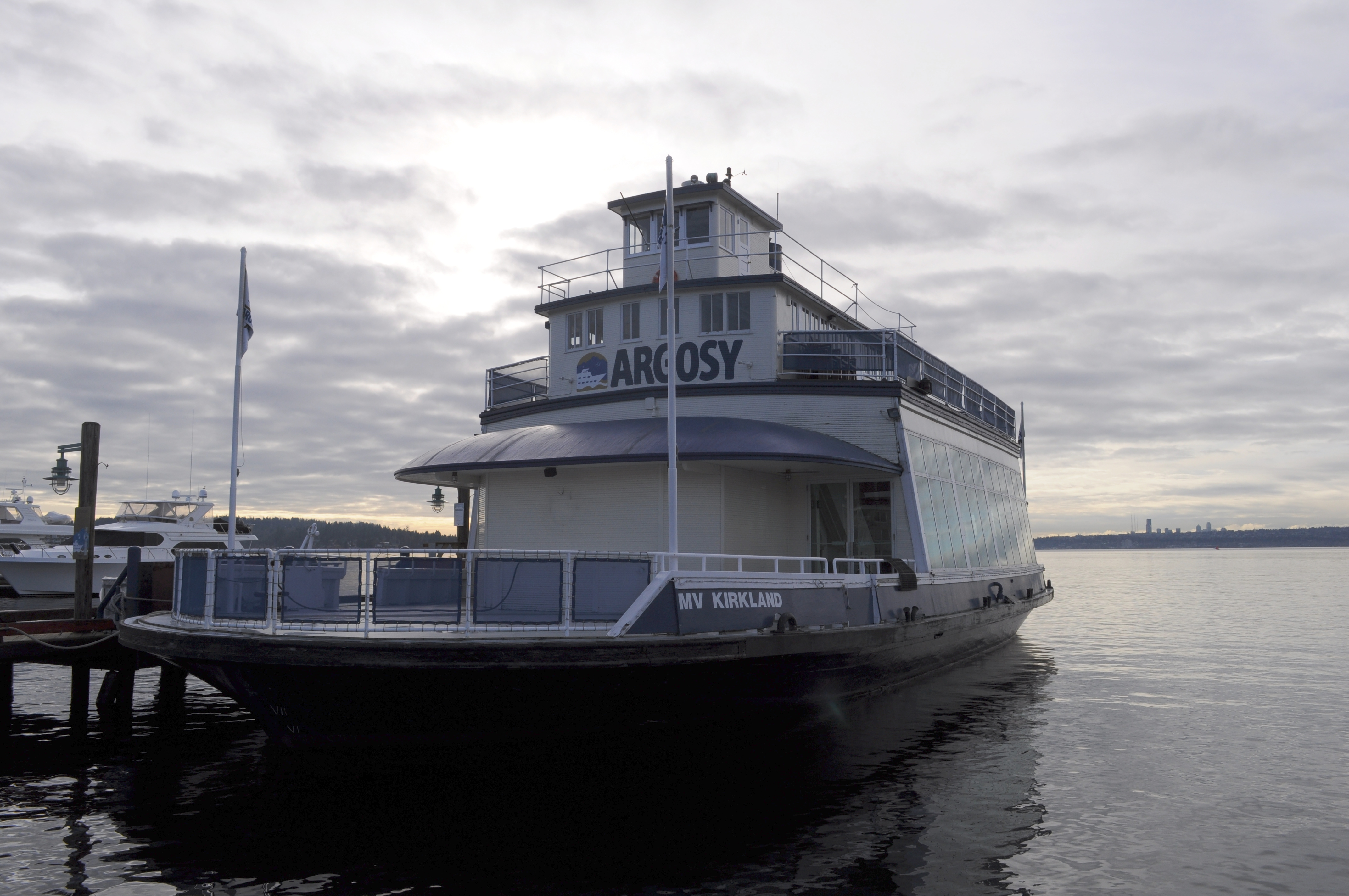 The MV Kirkland (previously Tourist II, listed on the National Register of Historic Places), moored at Marina Park, Kirkland, Washington.